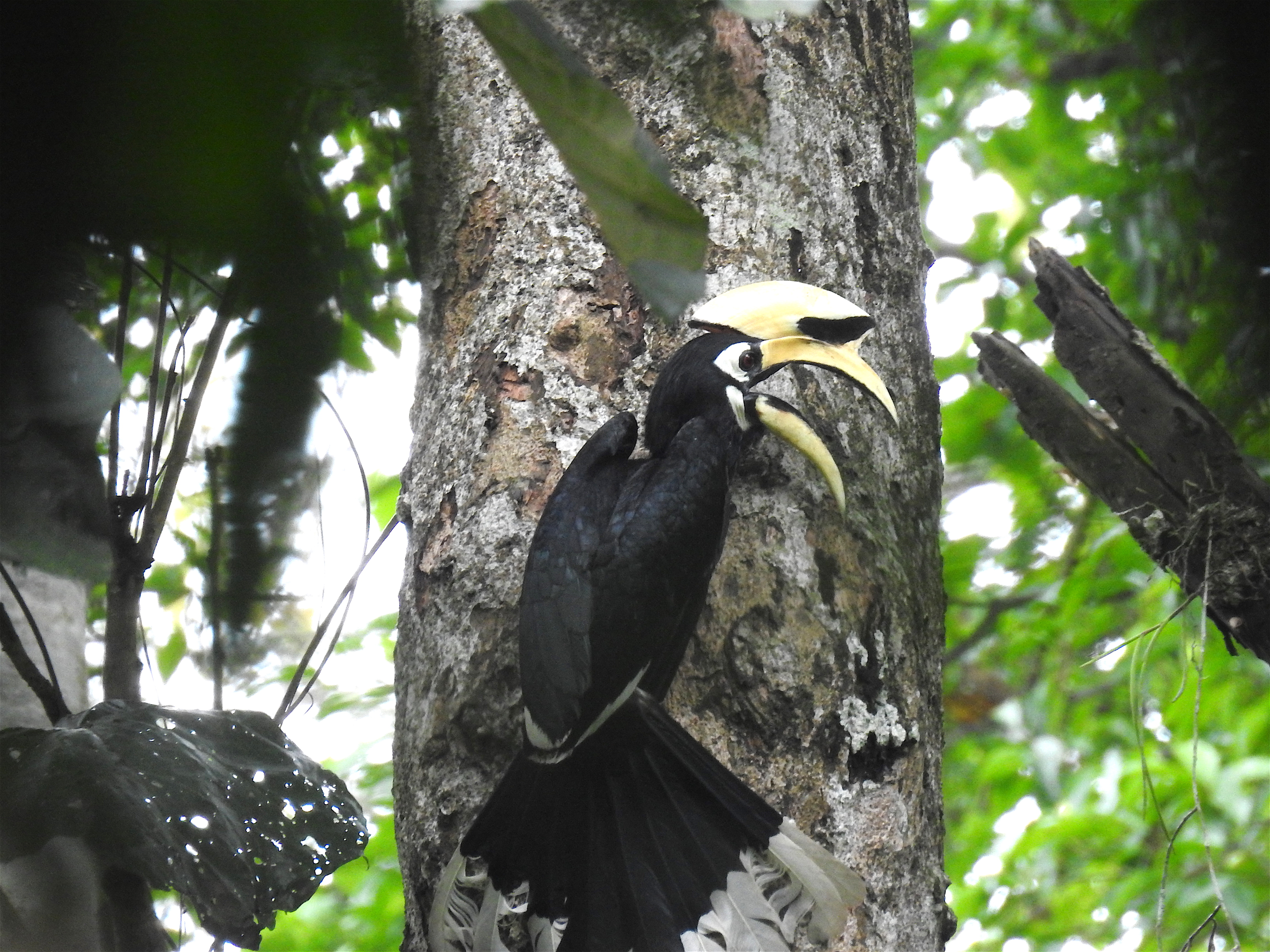 Oriental Pied hornbill male on a feeding visit to the nest on a Pterospermum acerifolium tree in Pakke Tiger Reserve in May 2016.